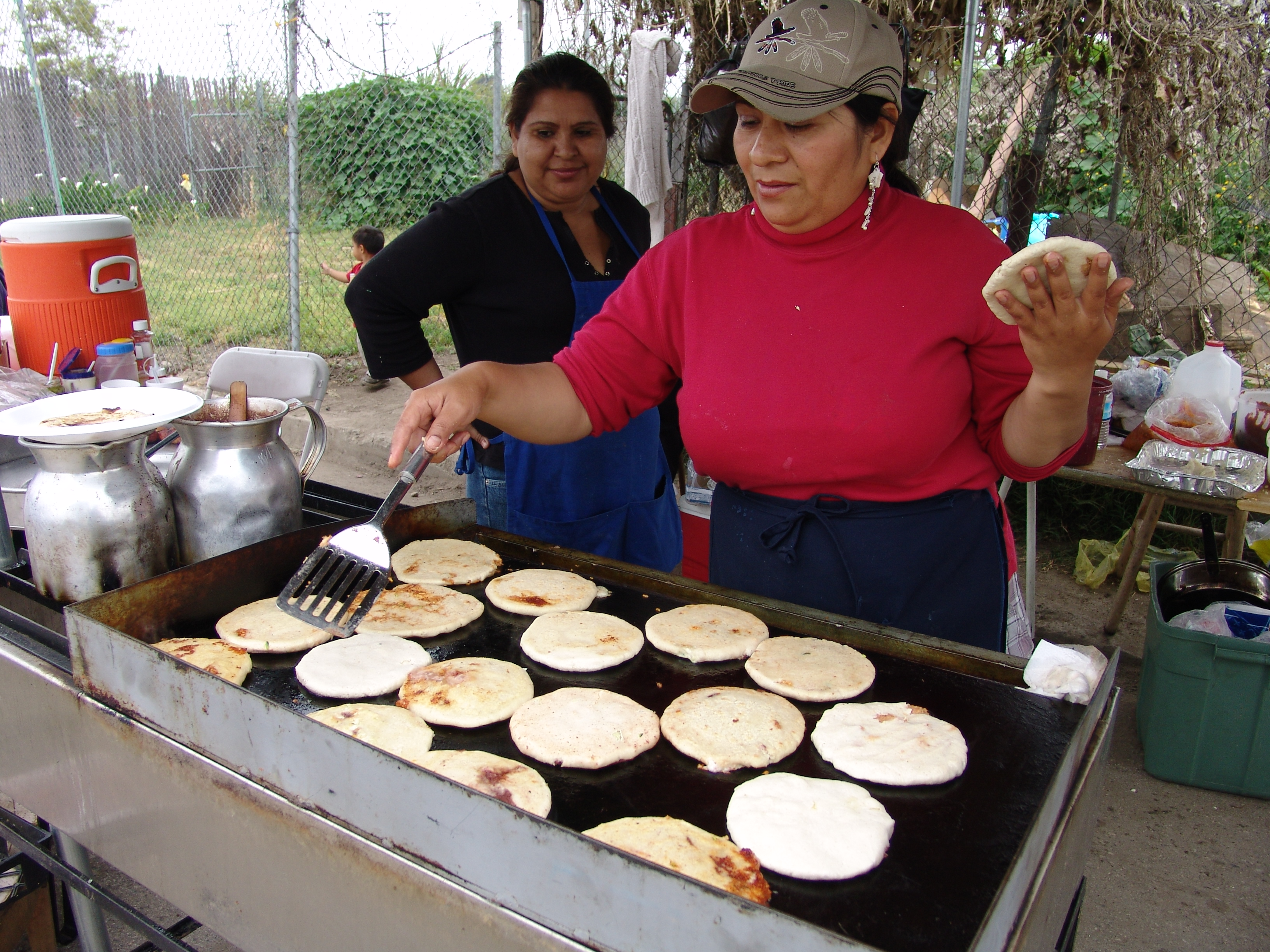 South Central Farm in the city of Los Angeles California. The 14 acres located at 41st and Alameda St. is one of the largest urban gardens in the United States.